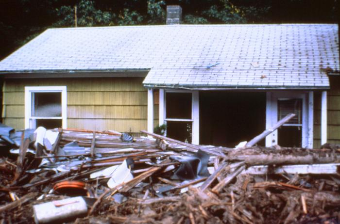 Home destroyed by the Lahar generated by the eruption.